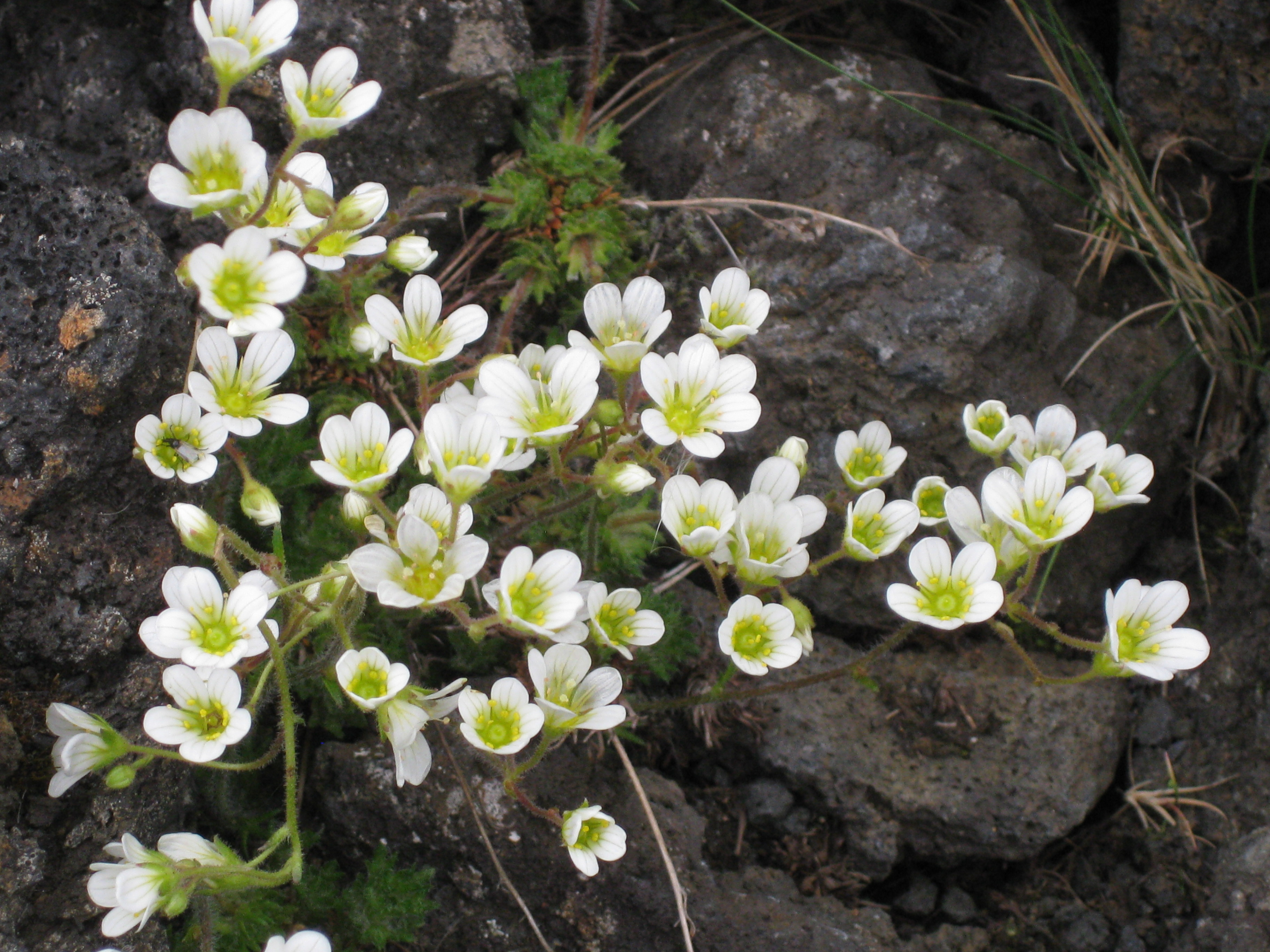 Saxifraga rosacea in Iceland